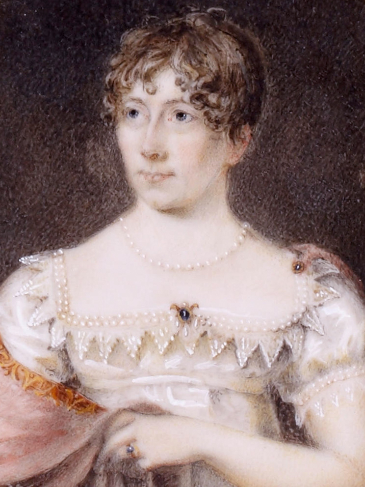 Arabella Mackworth-Praed married John Bourke, 4th Earl of Mayo on the 24th May 1792 7,5 x 5,9 cm